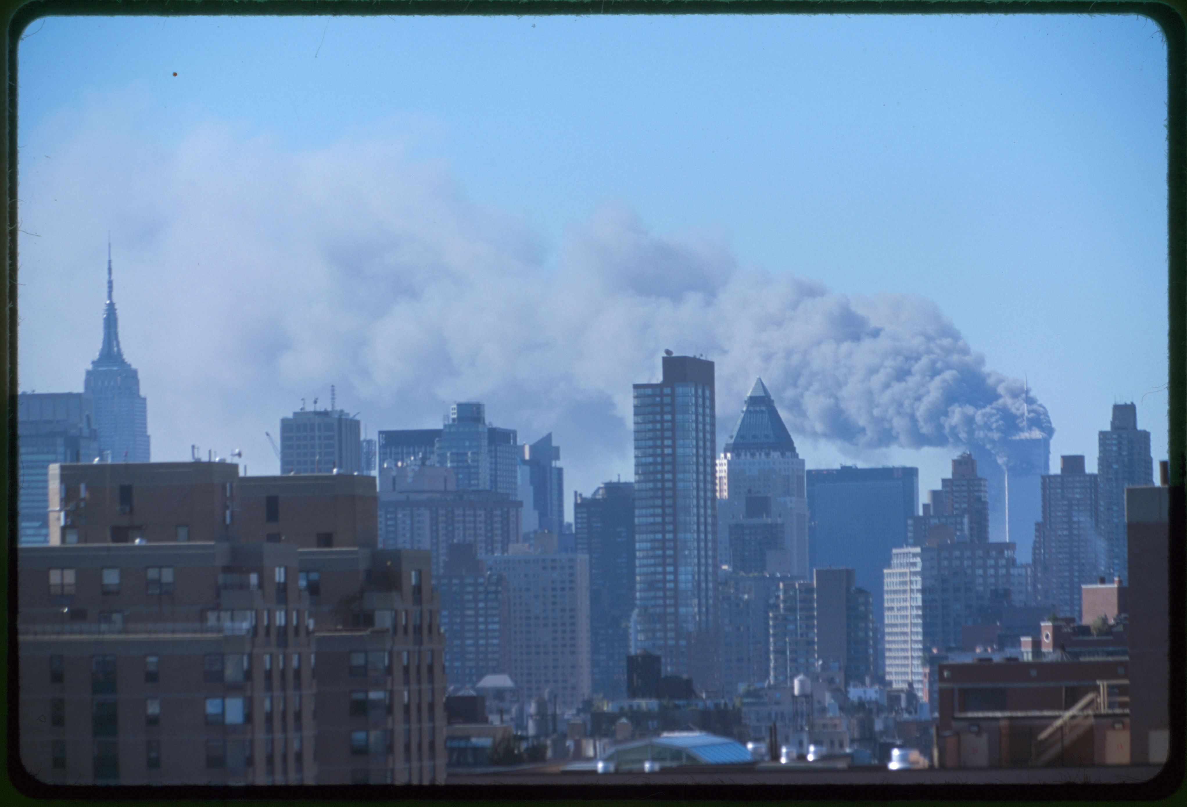 Overview of New York after the north tower (WTC 1) has been hit by Flight 11.